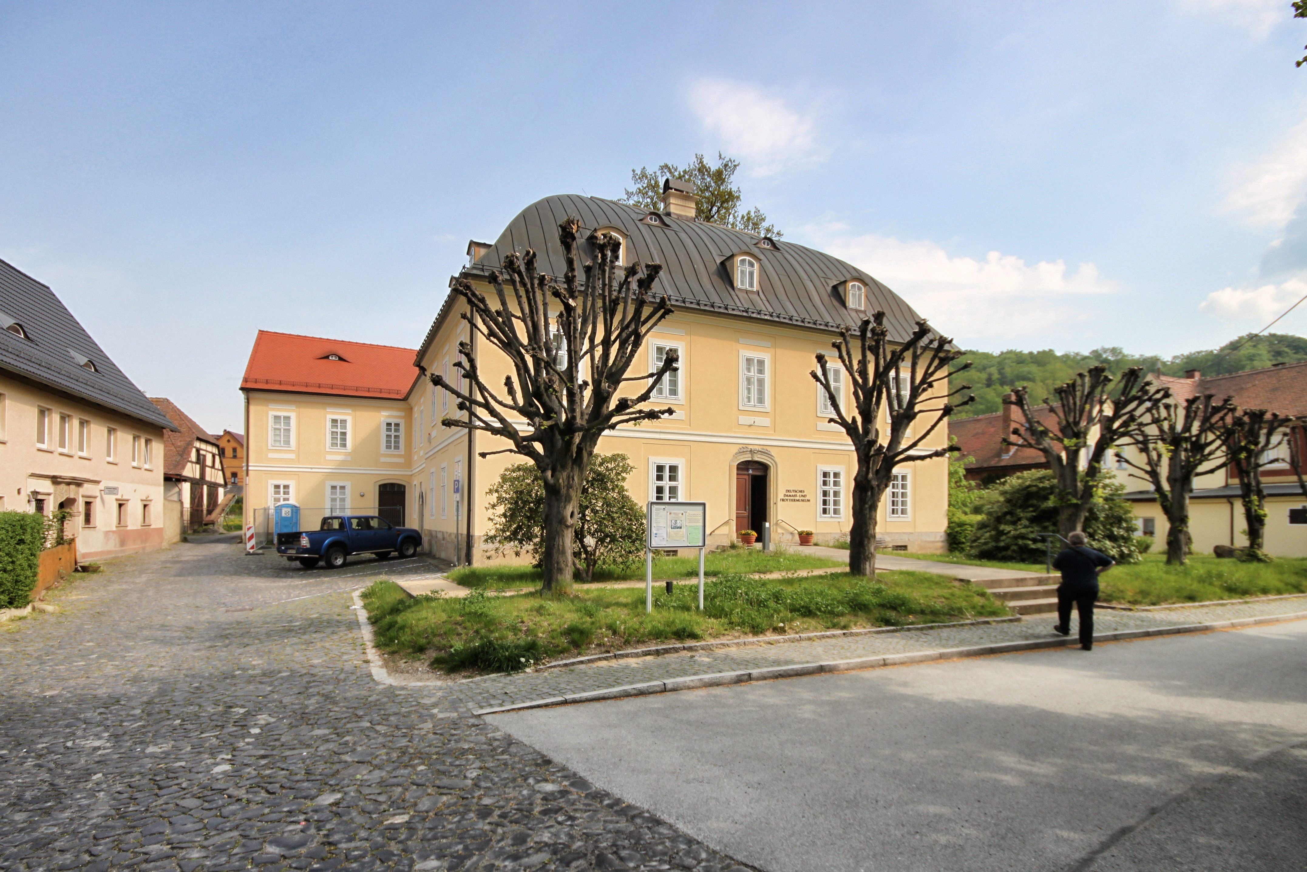 Buildings in Großschönau (Sachsen).